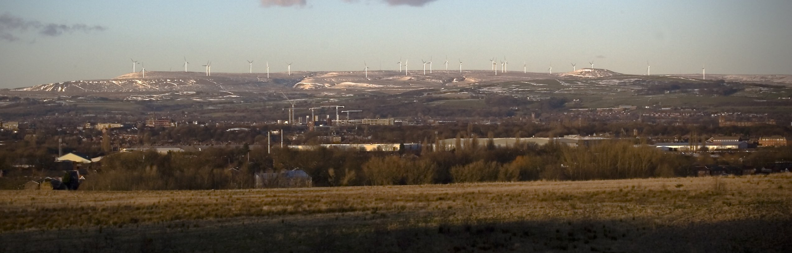 Scout Moor Wind Farm from Radcliffe, Greater Manchester, England.